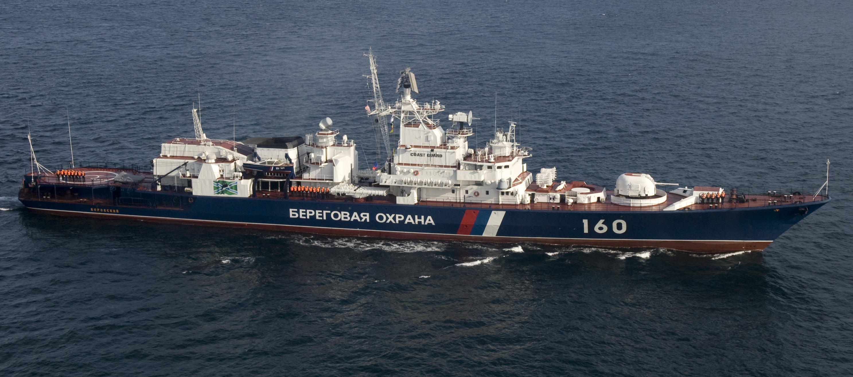 PORT ANGELES, Wash.- The Russian Border Guard Vessel Vorovskiy makes its way here as part of Excercise Pacific Unity 2009 on August 23rd, 2009. Pacific Unity 2009 is a coordinated North Pacific Coast Guard Forum scenario that is focused on demonstrating the parter nation's ability to provide maritime assets during an excercise occuring in the Pacific Northwest. Japan, Russia, Canada and the united States are sending vessels to take part in the evolutions while two members of the Forum, China and South Korea will participating as observers. Specifically, the partner nations will be coordinating simulated search and rescue, aids to navigation, law enforcement and security operations during the three day event. In addition, there will be opportunities for the crews participating to join together in social and cultural events aimed at building camaraderie and team work. Official Coast Guard photo by PA2 Zac Crawford.